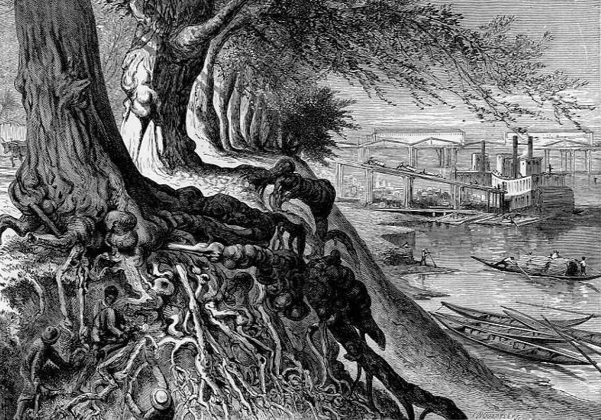 The Savannah, at Augusta, a wood engraving published in Picturesque America, 1872, D. Appleton & Company, New York, New York. The artist's signature is difficult to read, but it appears to be F. O. C. Darley, who contributed to the collaborative effort.